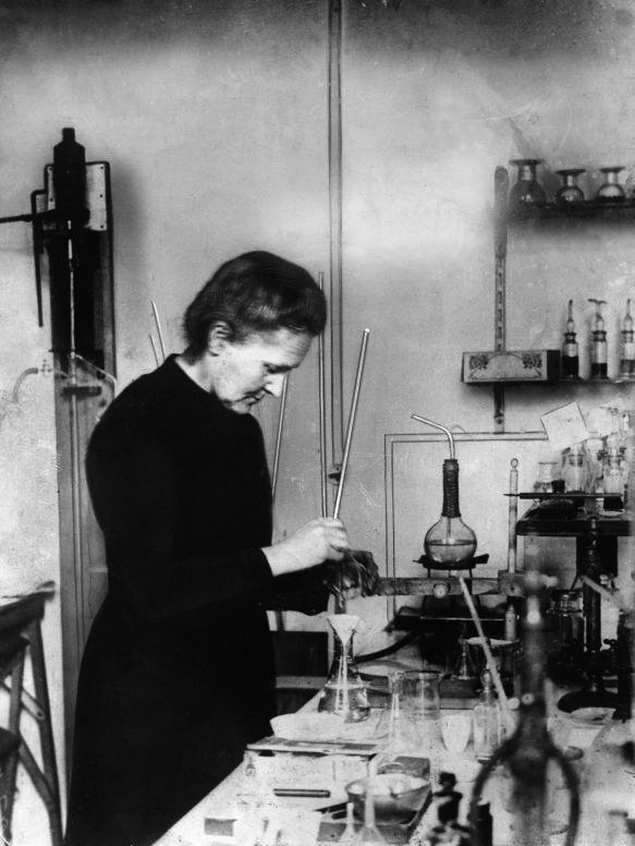 Marie Curie, winner of two Nobel prices (physics 1903 and science 1911) in her laboratory. France, date unknown.